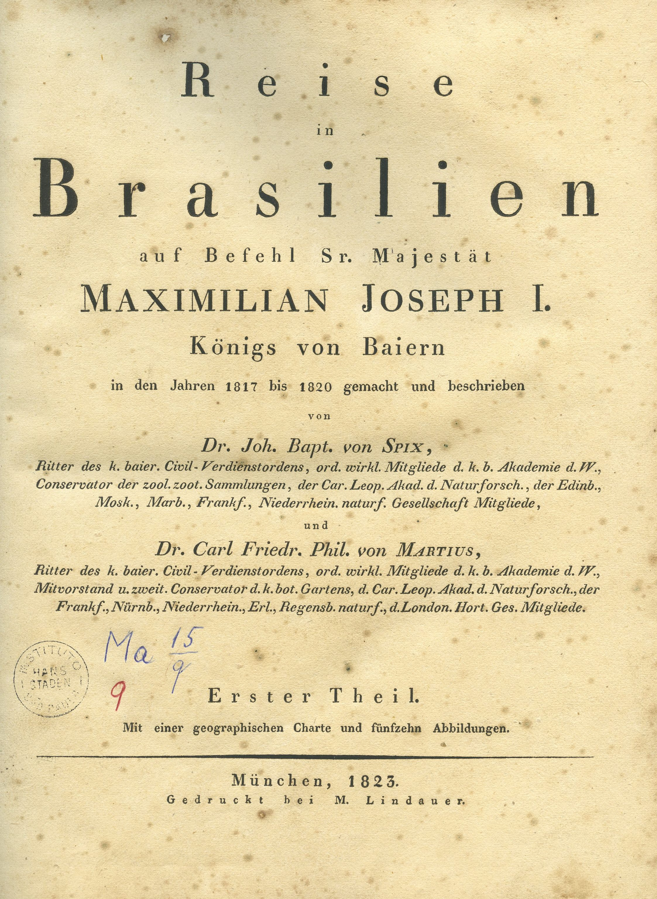 The first page of the book Reise in Brasilien, which was scanned in Brazil in the Martius Staten Institut